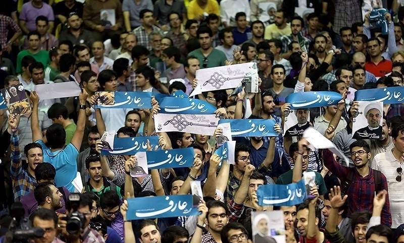 Presidential candidate, Hassan Rouhani's election convention in Shahid Shiroudi Hall, Tehran